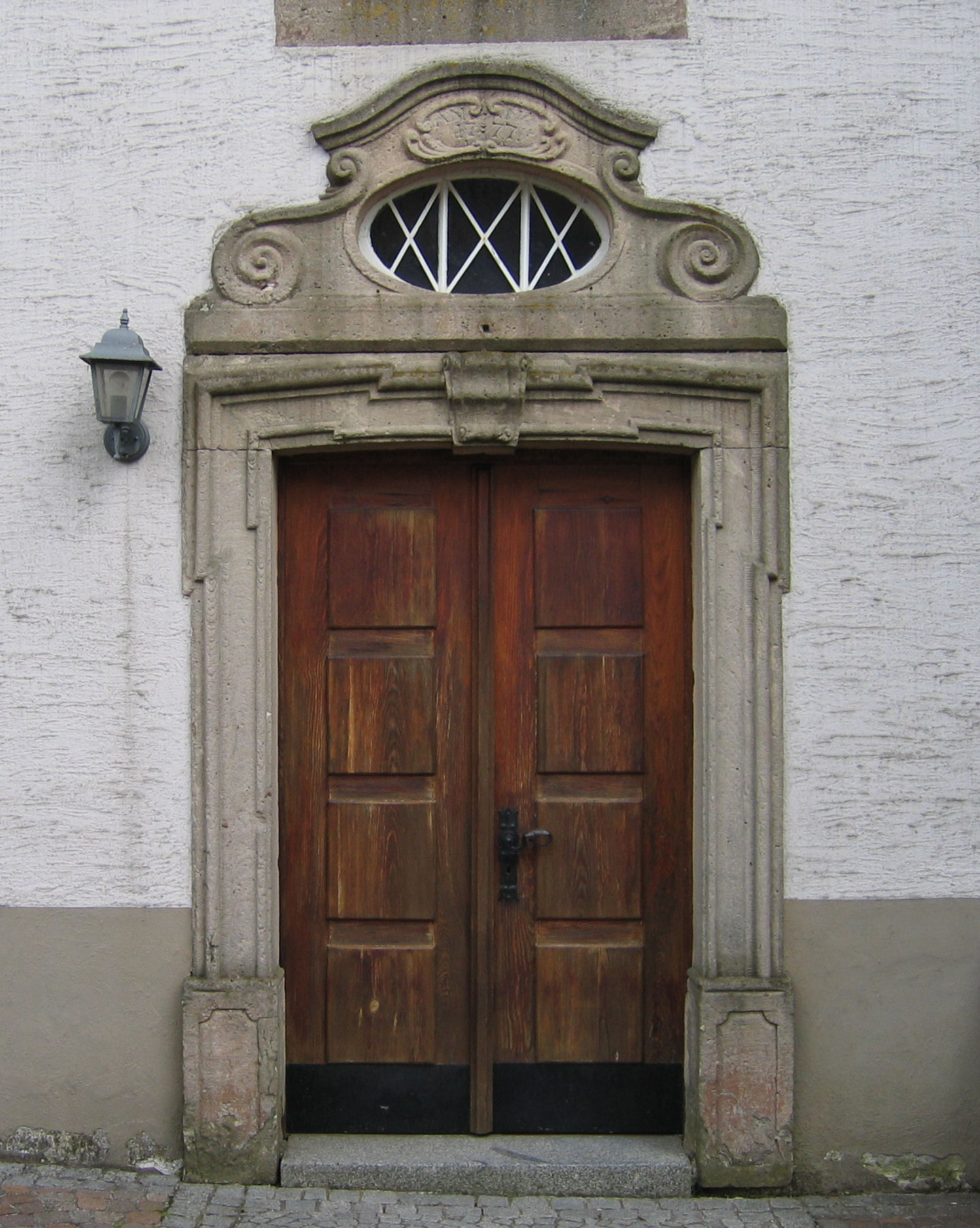 view of Sembach, Germany